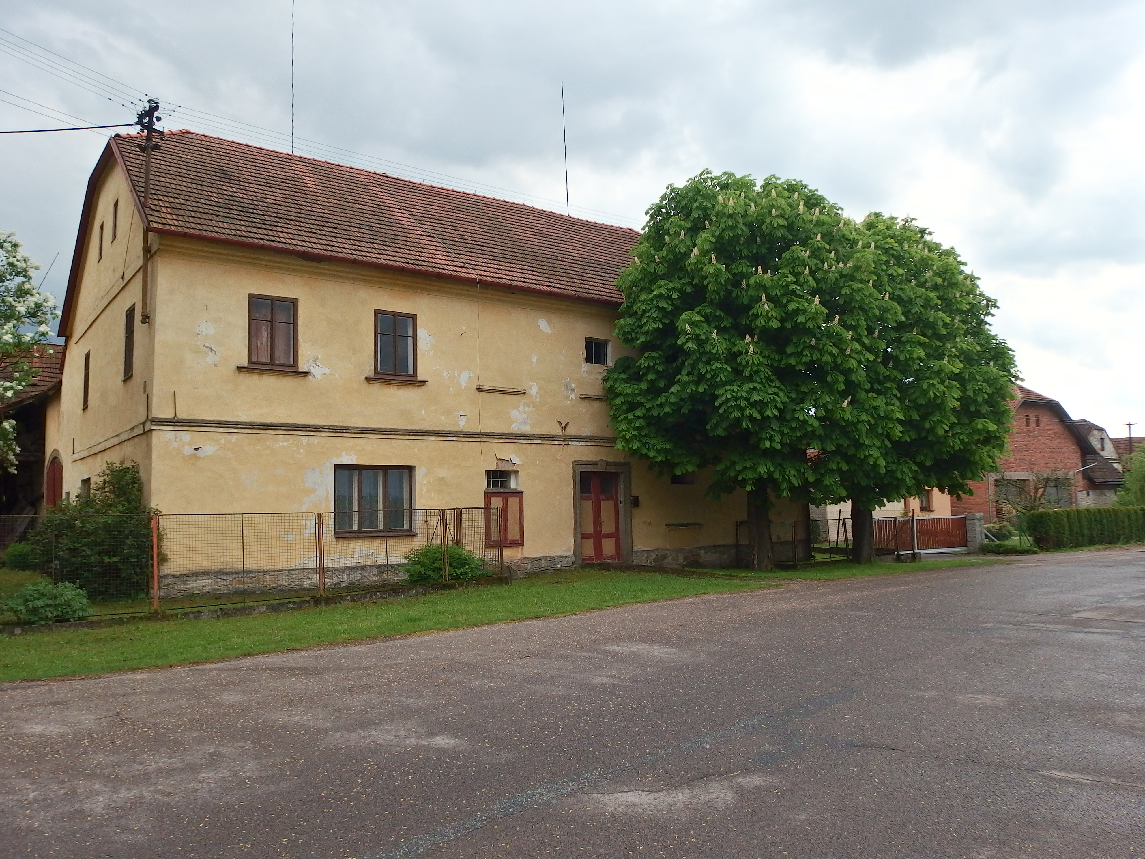 České Heřmanice, Ústí nad Orlicí District, Czech Republic, part Borová.